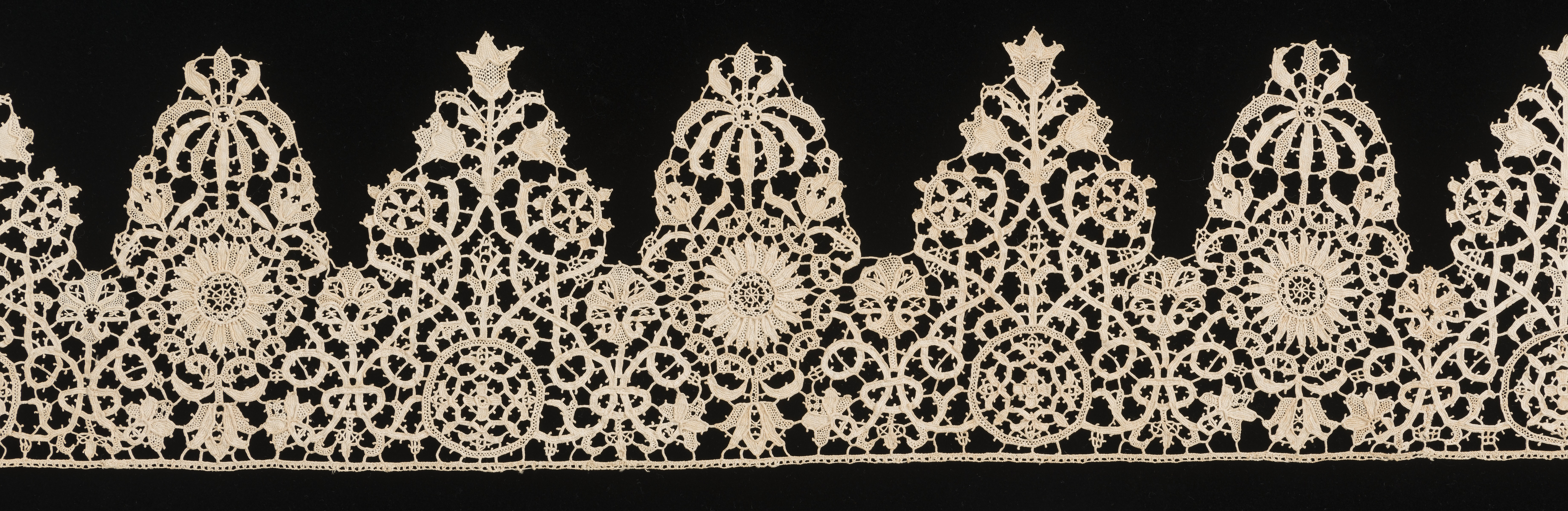 Deeply pointed punto-in-aria border in floral patterns. Blue bell design alternating with lily sprays.